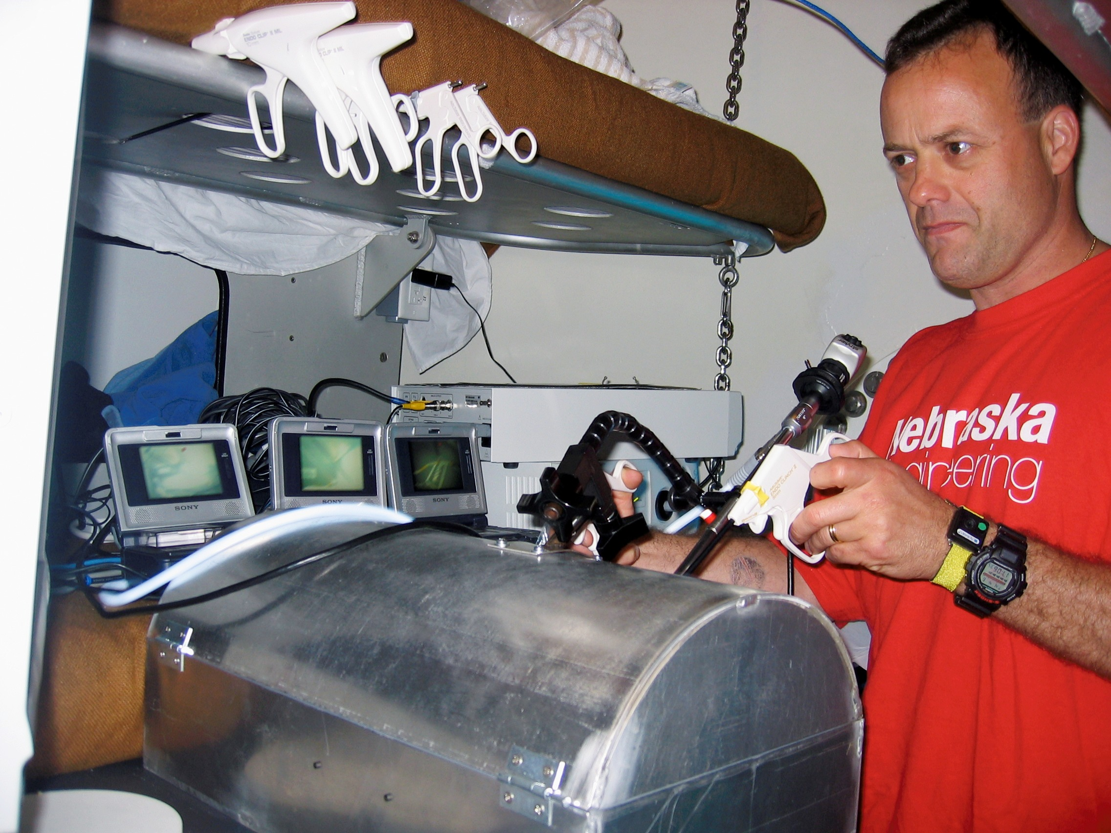 NEEMO-9 astronaut/aquanaut Ronald J. Garan Jr. works with a Center for Minimal Access Surgery (CMAS) experiment in the National Oceanic and Atmospheric Administration’s (NOAA) Aquarius Underwater Laboratory, located off the coast of Key Largo, Florida, for the NASA Extreme Environment Mission Operations (NEEMO) project. The CMAS experiment evaluates the use of telementoring for emergency treatment of medical conditions that could arise during a space mission.